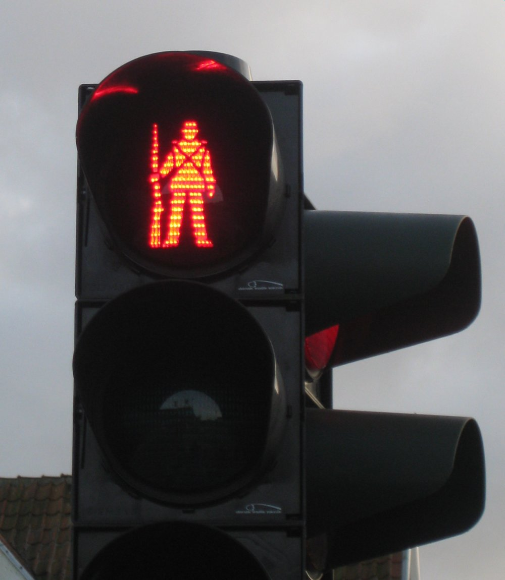 Traffic light in Fredericia (Denmark).